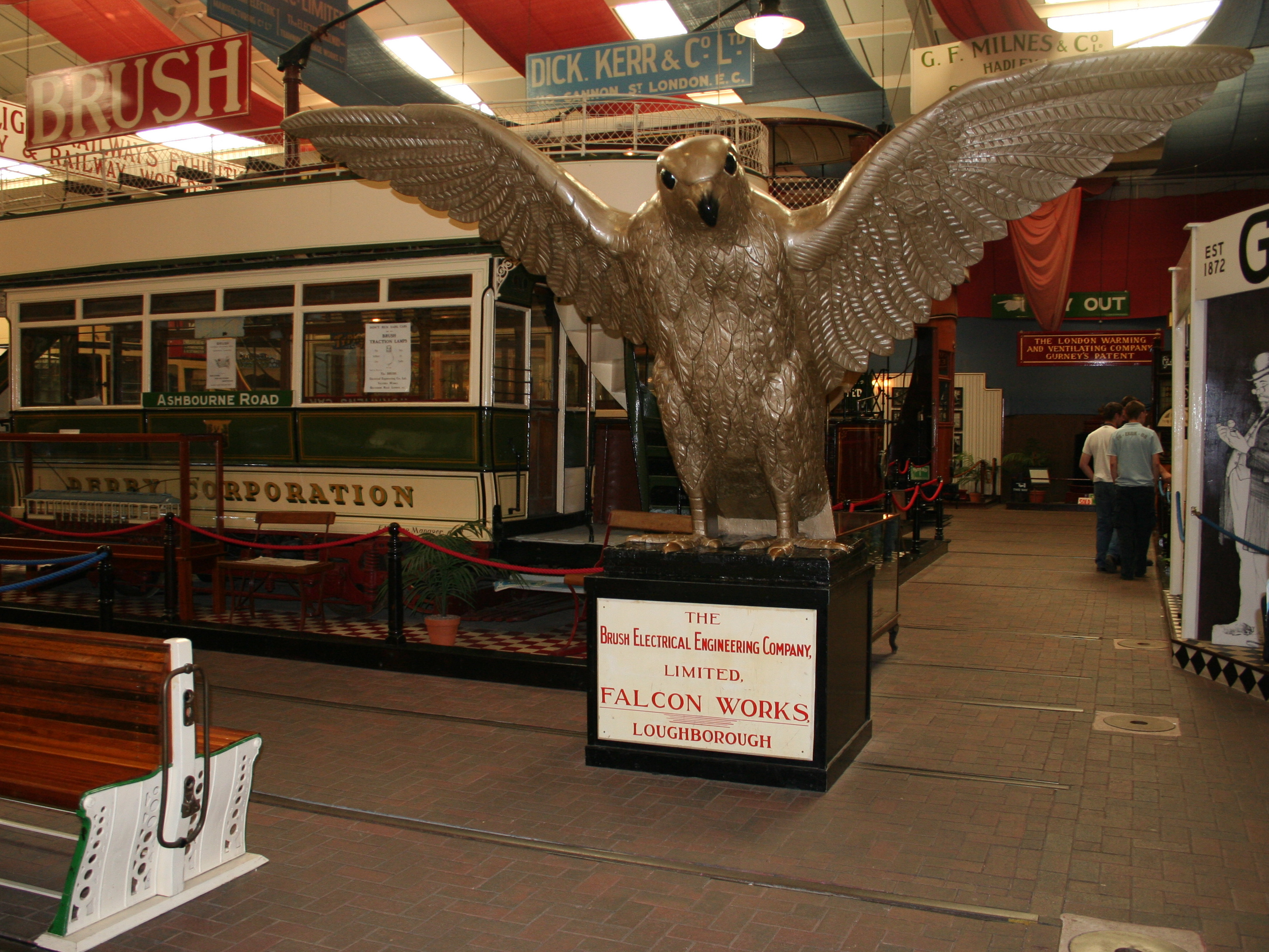 Crich Tramway Museum Extravaganza